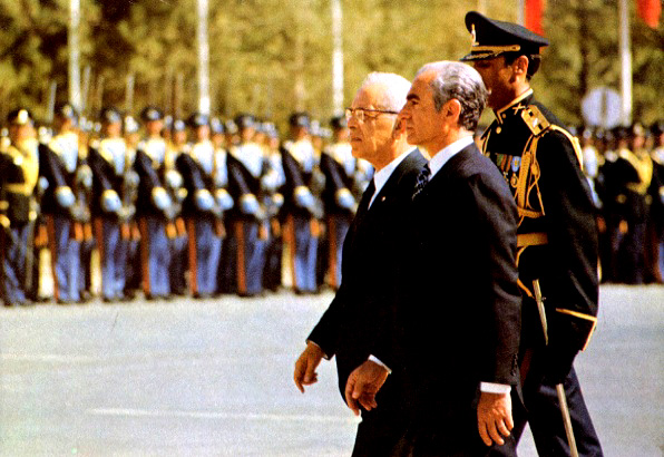 welcoming ceremony